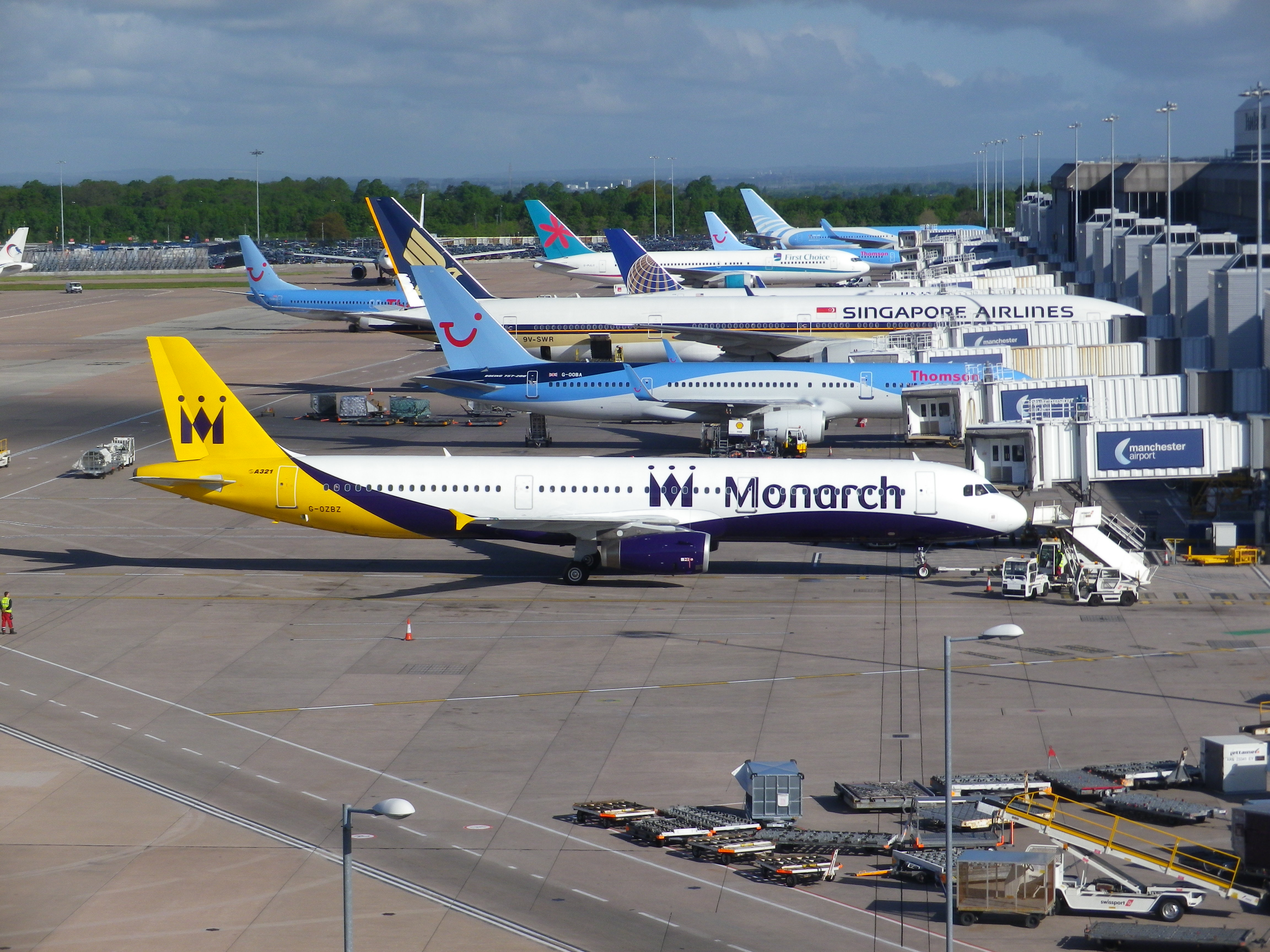 Terminal 2 Apron at Manchester Airport Also would like to thank Airports Of The World for using this photo for their UK Airports Guide 2014